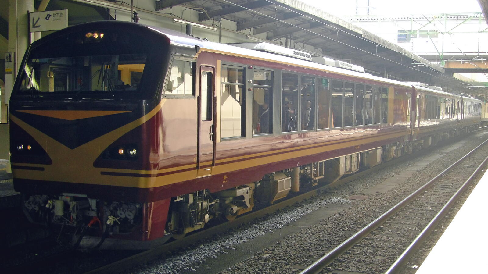 Sendai Station